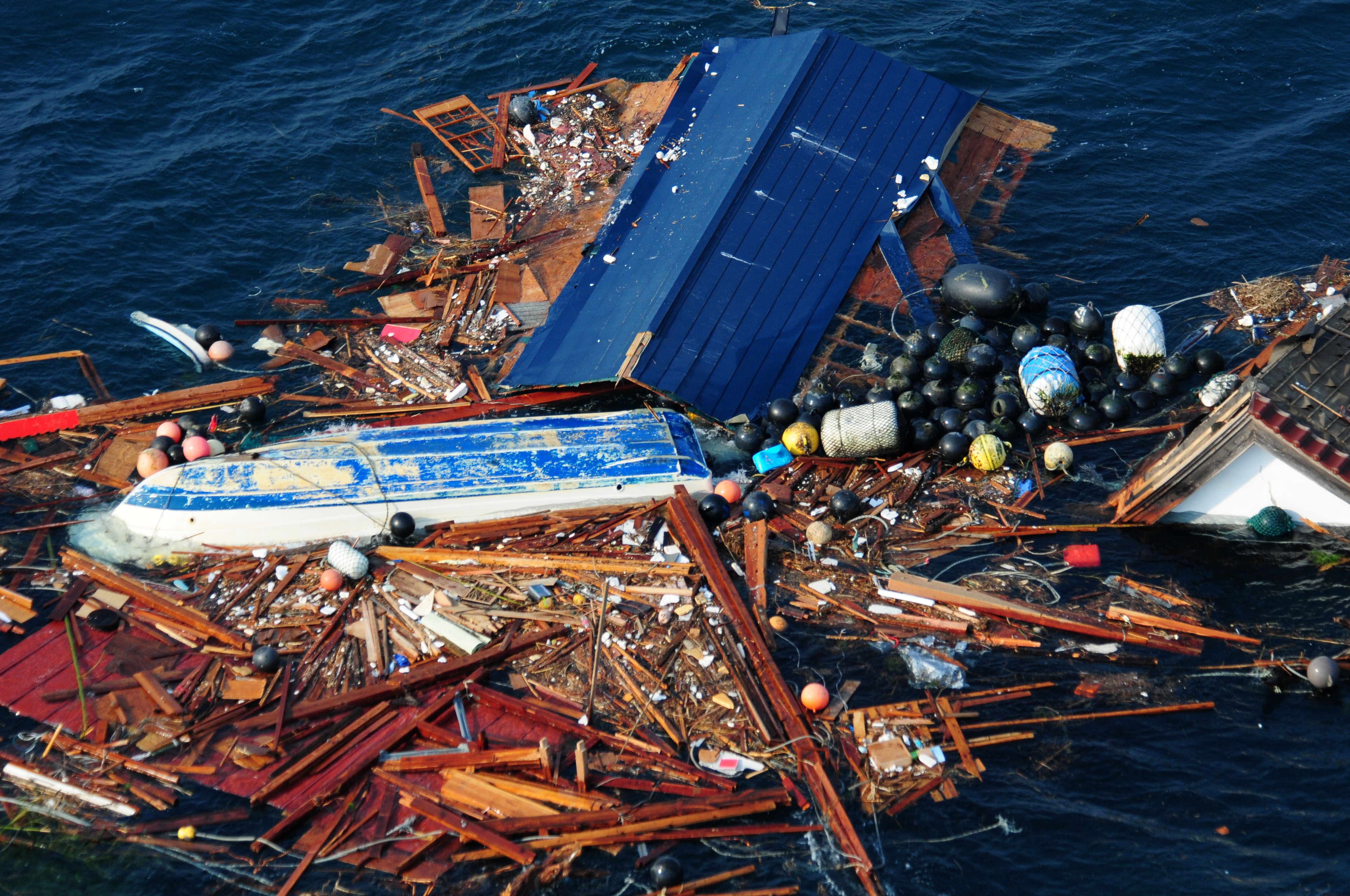 Japanese tsunami debris on the open ocean, March 2011.